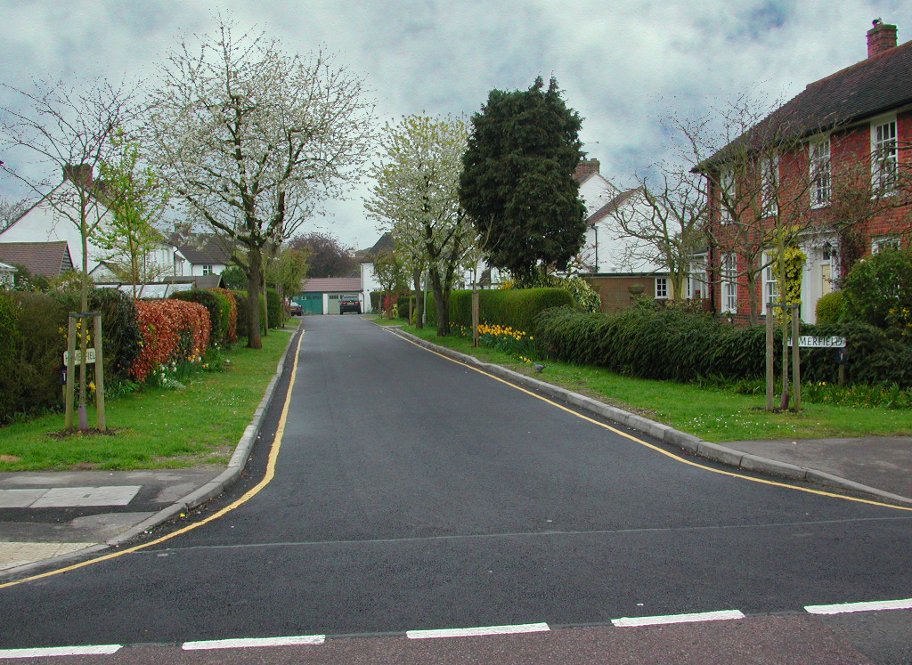 A short and narrow cul-de-sac in Wellwyn Garden City, UK